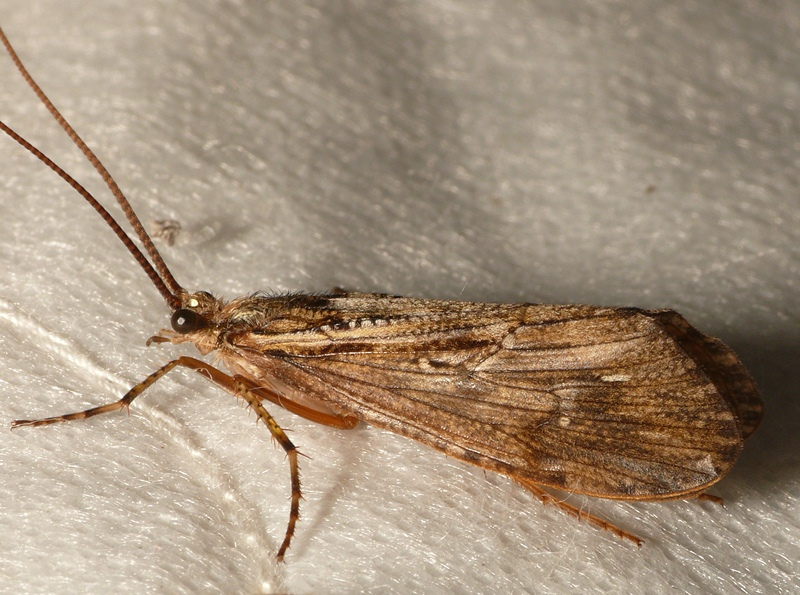 Phryganea grandis, male. Location: The Netherlands - Rhenen - Blauwe Kamer